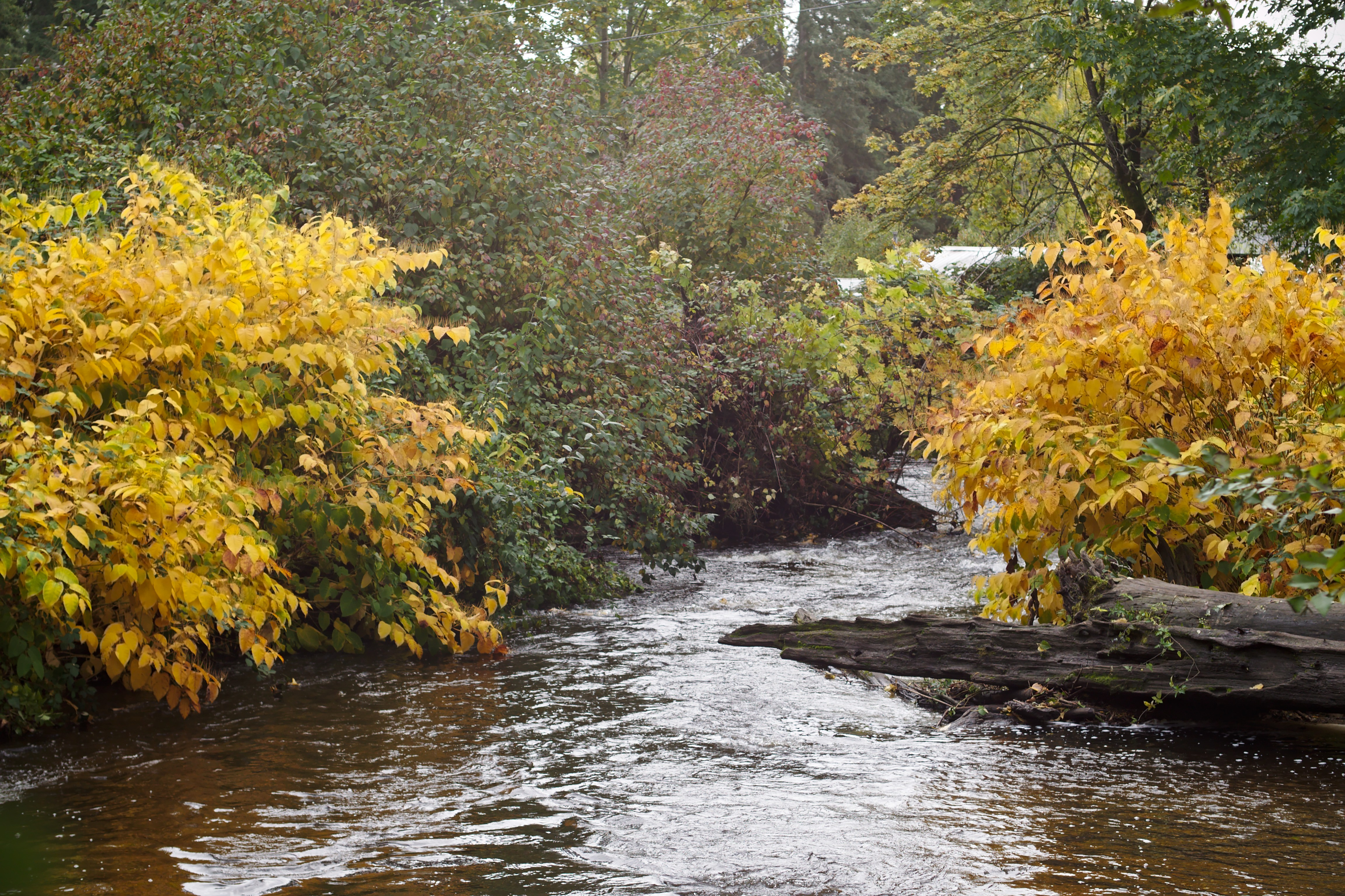 Creek view in Wallace Swamp Creek Park, Kenmore, Washington.